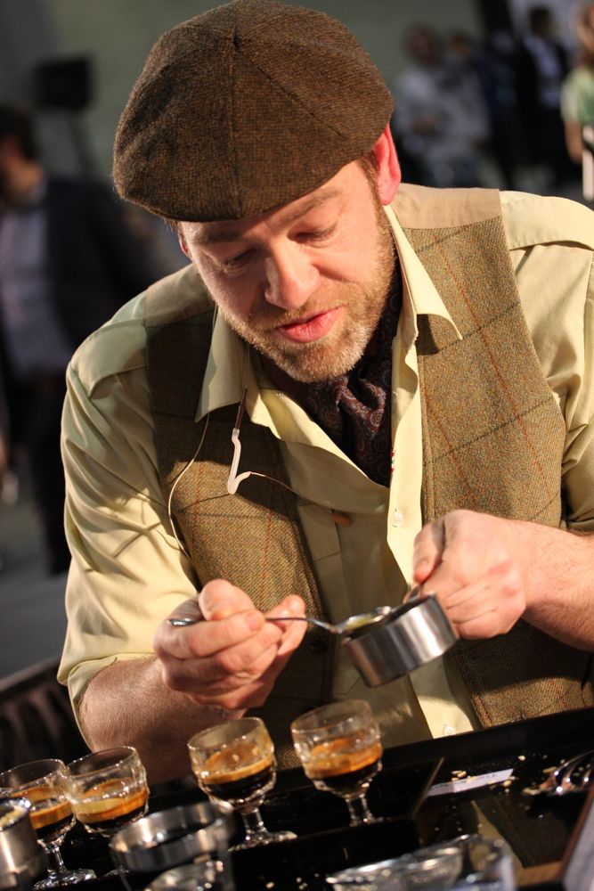 Gwilym Davies composing his signature drink at the 2009 World Barista Championship in Atlanta, Georgia.